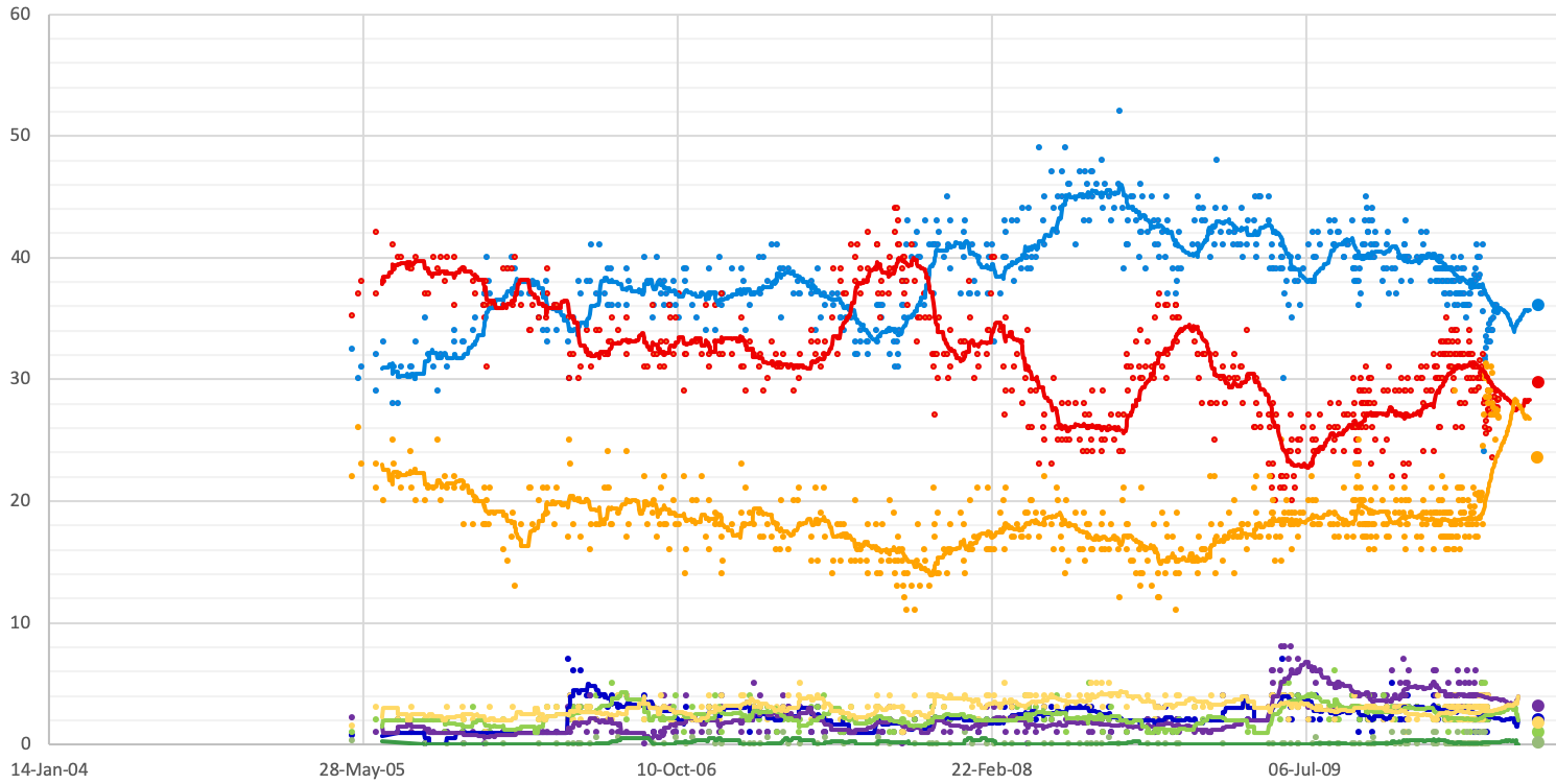 Blue: Conservative, red: Labour, amber: Liberal Democrat